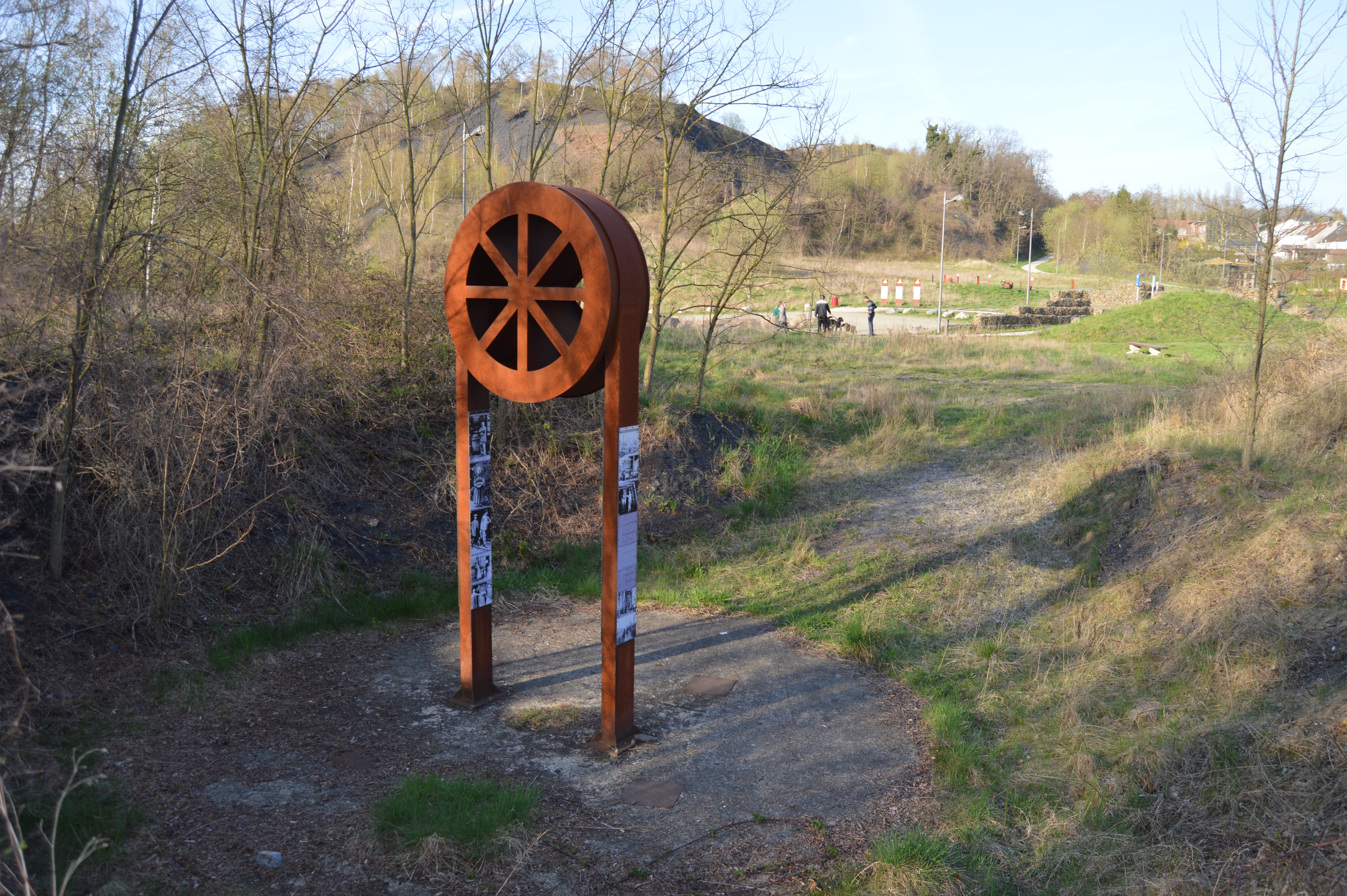 Ancient pit of the Gosson II coal mine in Montegnée, Belgium